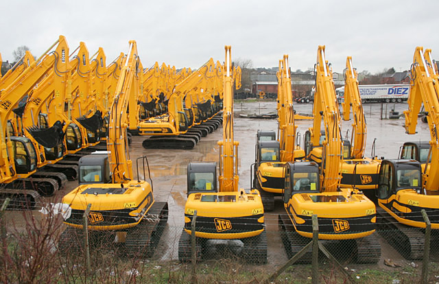 Excavators on Parade. JCB excavators await buyers in a yard in Uttoxeter.